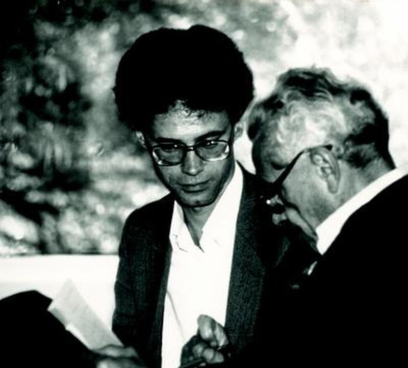 Roger Heath-Brown (left), Oberwolfach 1986